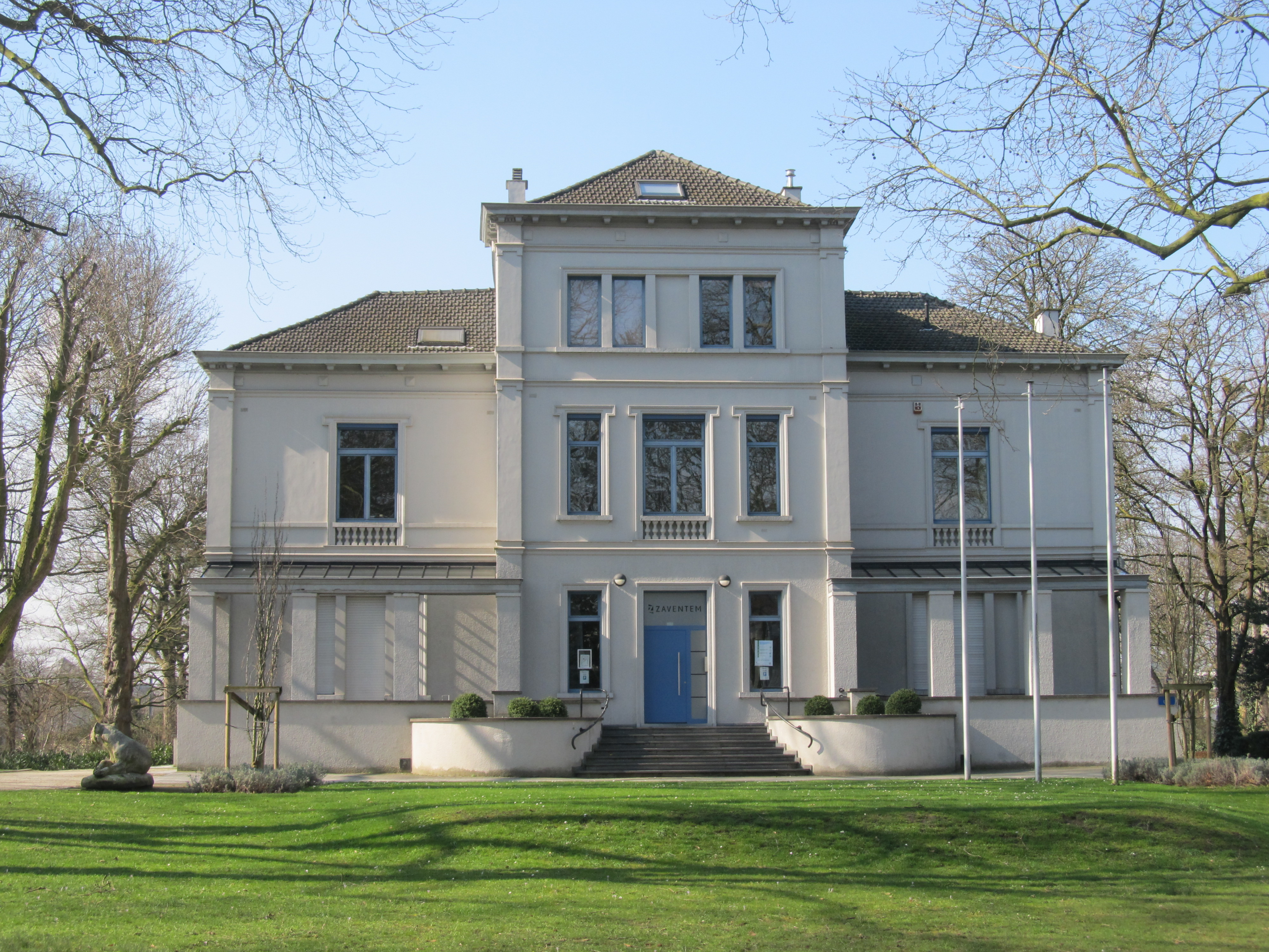 The former Quitmann villa, now the town hall of Zaventem, Belgium.